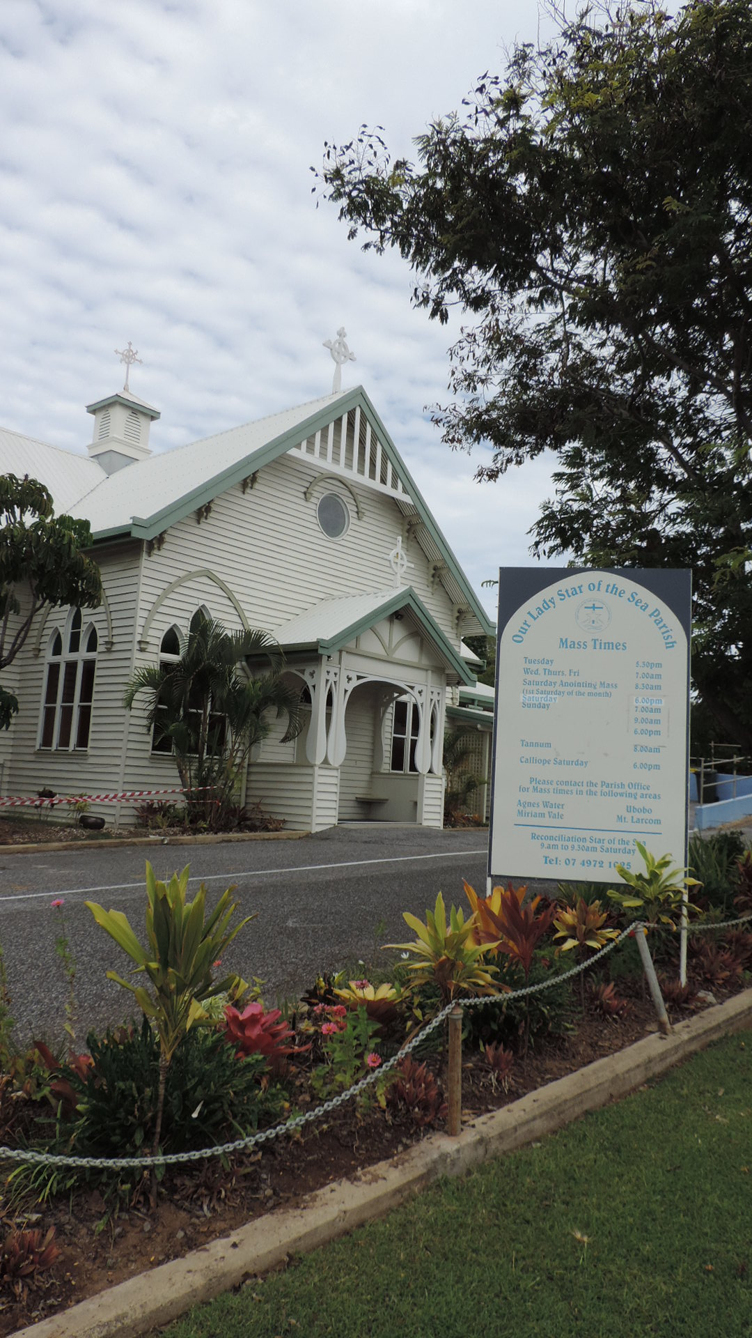 Our Lady Star of the Sea Catholic Church, corner of Goondoon Street and Herbert Street (view from Herbert St), Gladstone, 2014